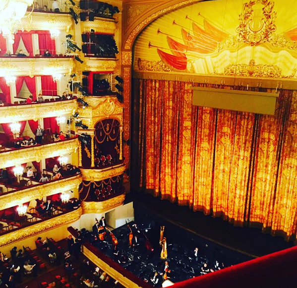 The curtain of the Bolshoi Theater